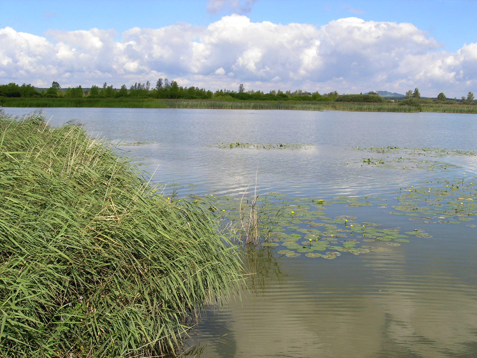 Federsee nature reserve at Bad Buchau, near Biberach an der Riss in South-West Germany